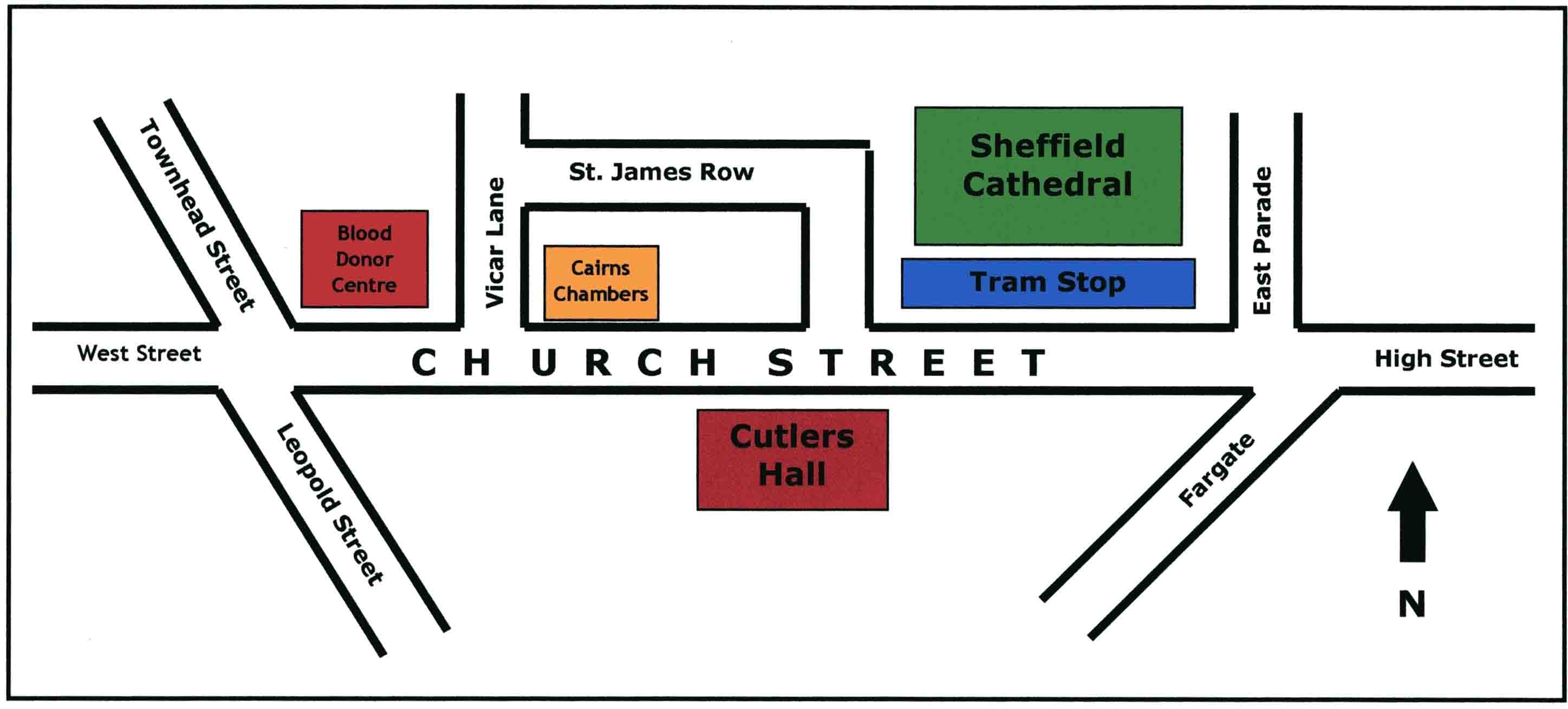 A basic map of the Church Street area in Sheffield City Centre.